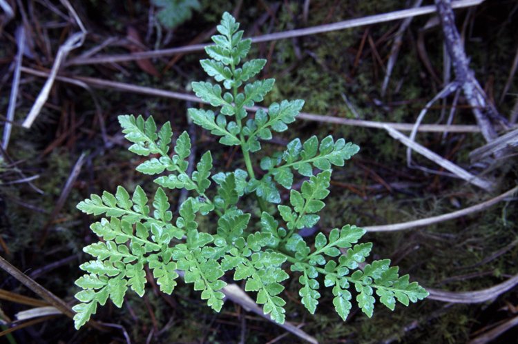 Botrychium multifidum at Humboldt Bay National Wildlife Refuge Complex, California, USA